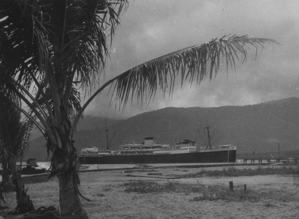 Motor ship Manunda entering the harbour at Cairns, Queensland, 1953. Script on back of photograph reads: "Cairns Inlet. Shows Manunda entering harbour. Foreground of mudflat is to be reclaimed for park by Council." (From description supplied with photograph.).